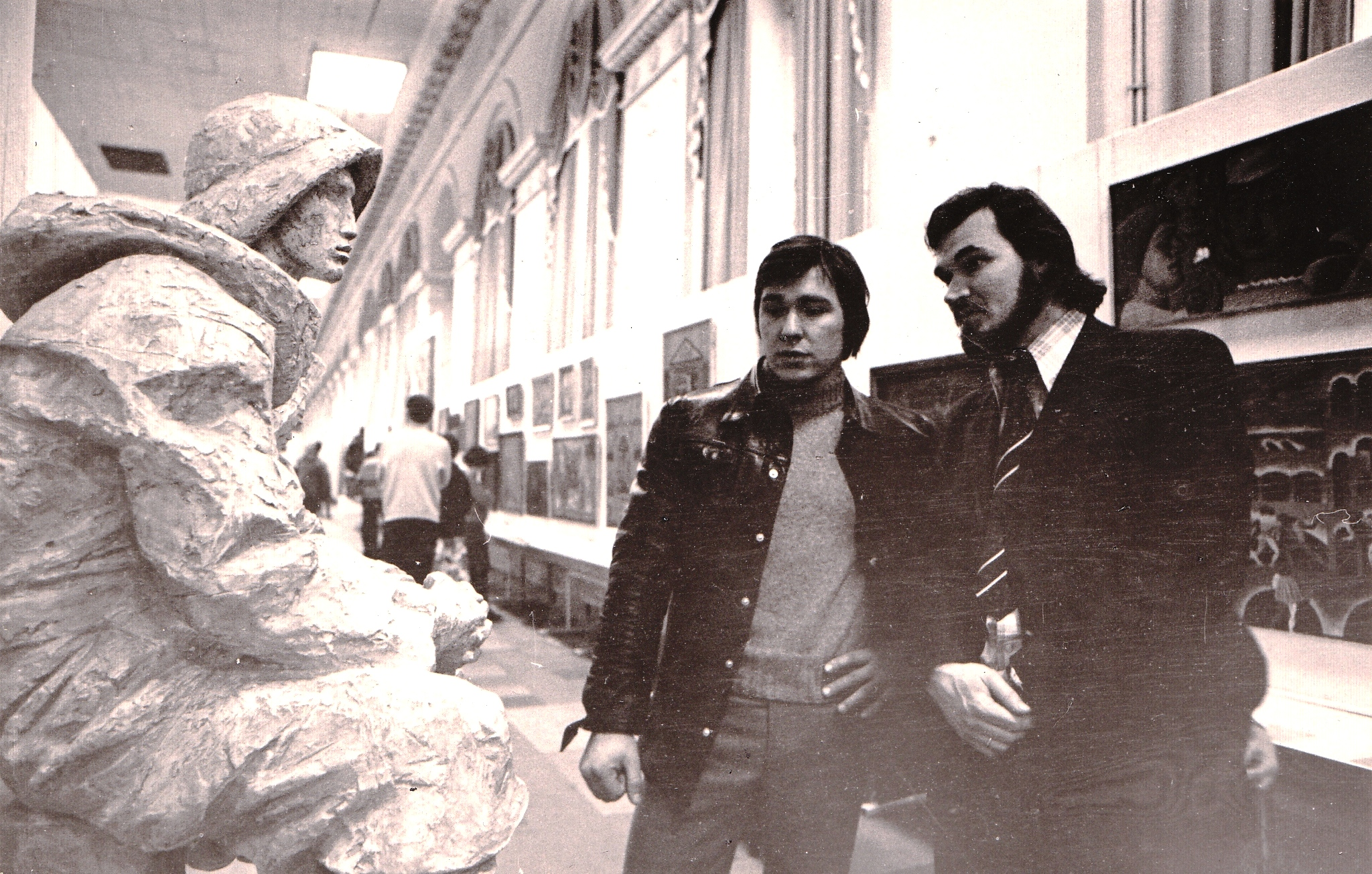 Kubarev Livny